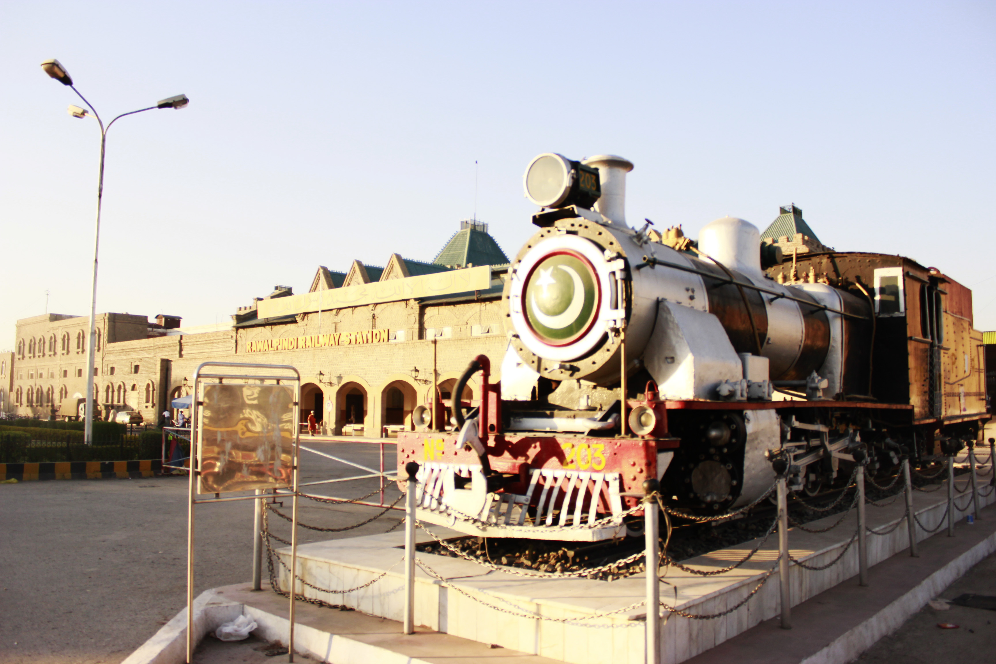 Rawalpindi railway station. The old engine. This is a photo of a monument in Pakistan identified as the PB-U-48